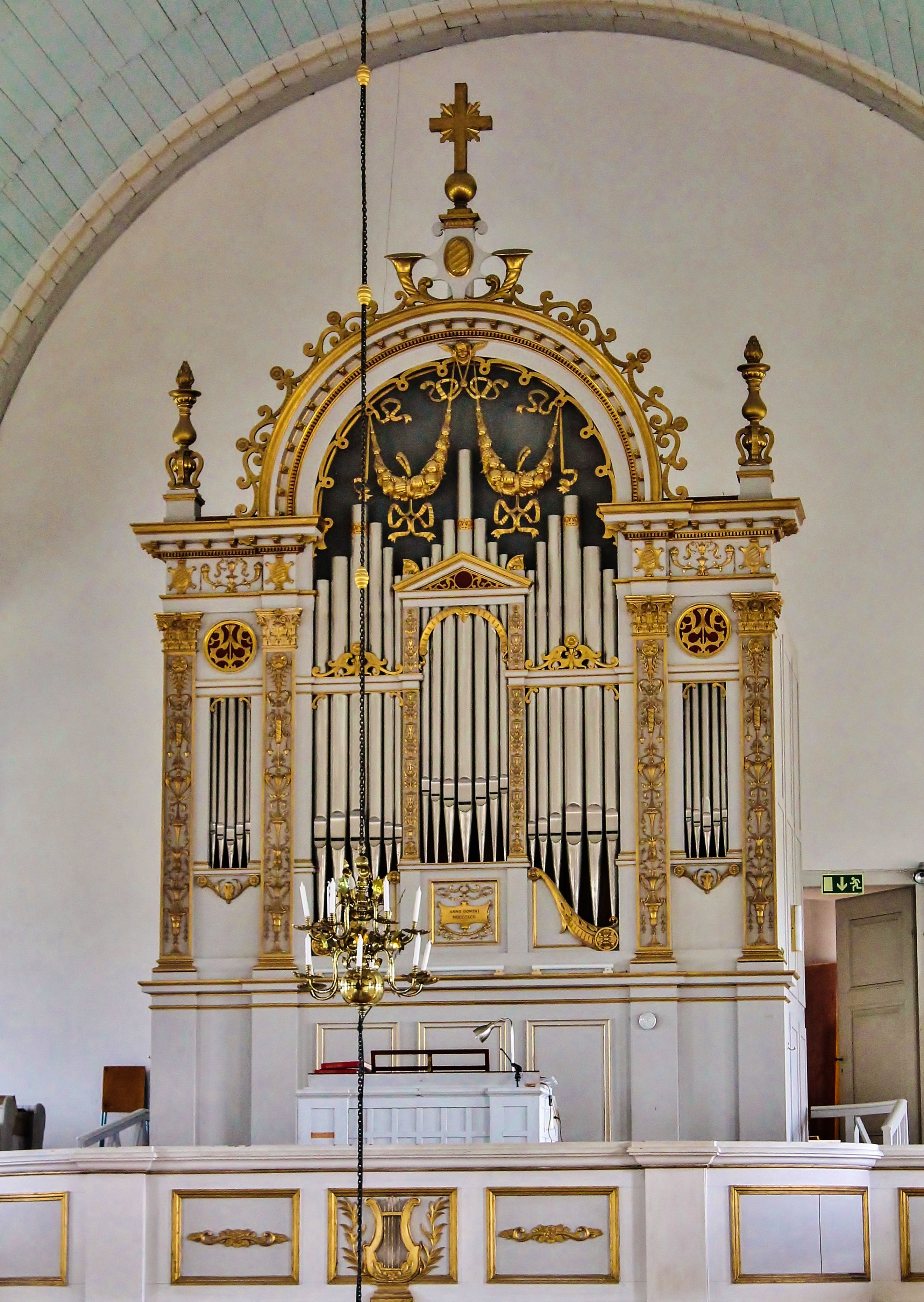 Vederslöv Church. The organ